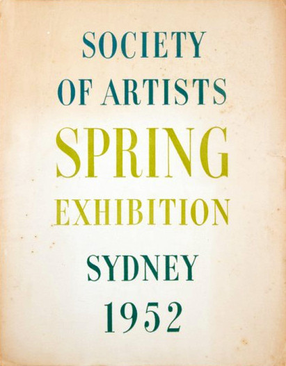 1952 exhibition catalogue. The catalogue listed 139 works with prices, including artists Thake, Passmore, Bellette, Wakelin, Rees, Haxton, Kmit, Haefliger, Drysdale, Cassab, East Sydney Technical College Group and Julian Ashton School Group.